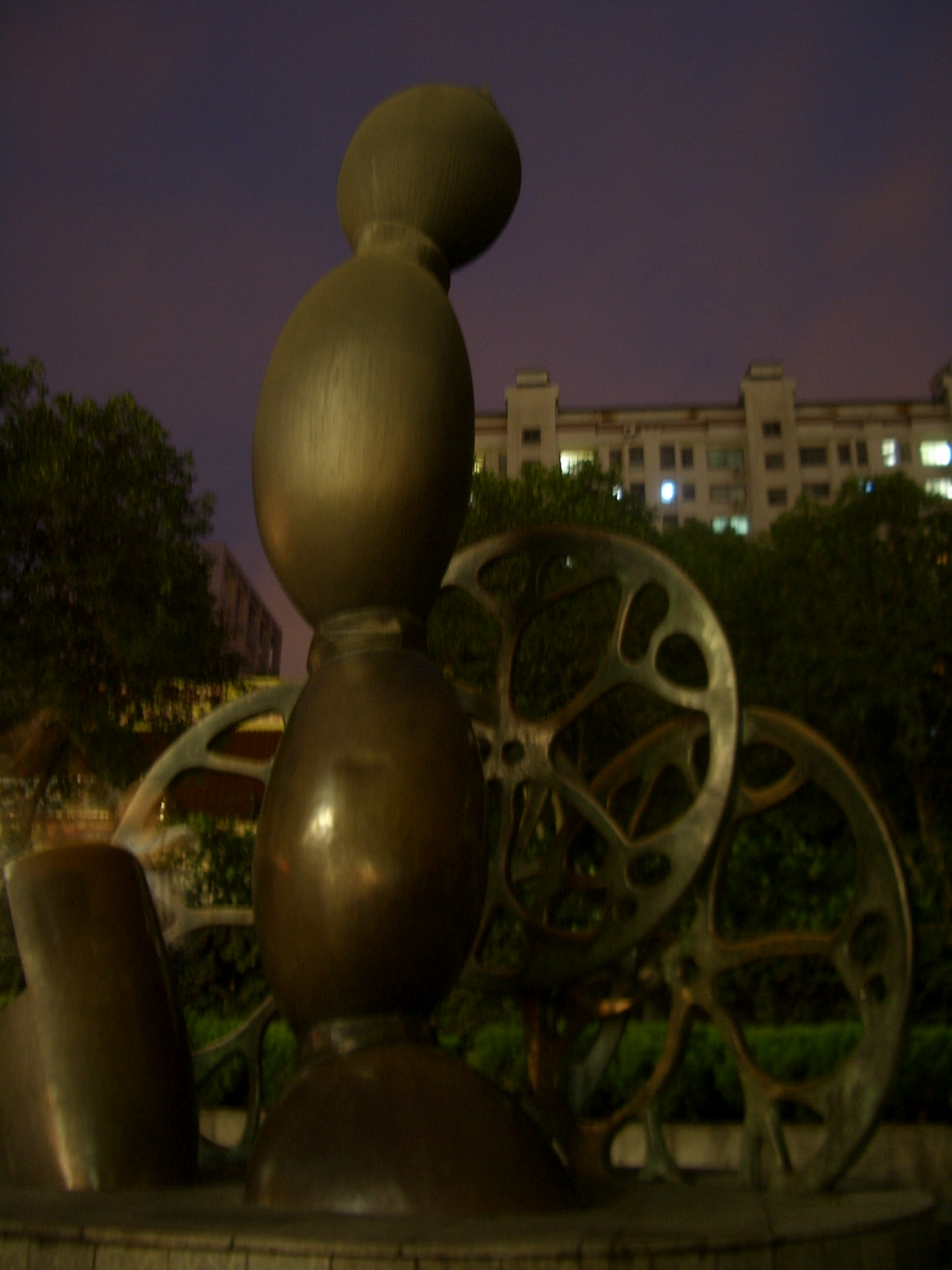 Lotus root monument in Wuhan. (A few blocks north of Hongshan Square in Wuchang)